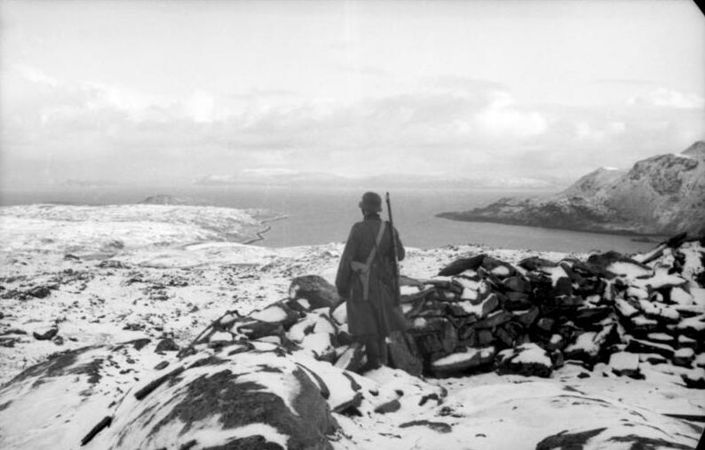 Hammerfest - in the direction of the village Forsøl (Source: - Uidentifiserte bilder fra Bundesarchiv)